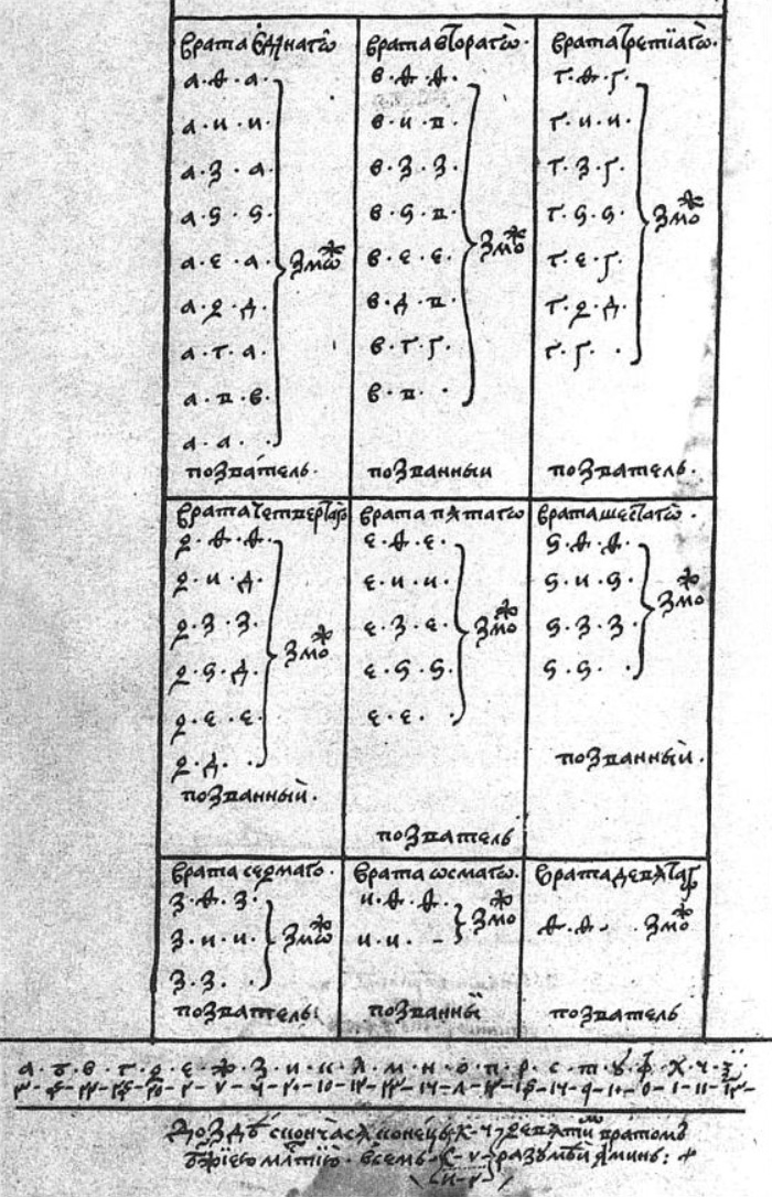 Onomantic table from the Russian version of the Secretum Secretorum. Oxford, Bodleian Library, MS Laud Misc. 45, p. 48.